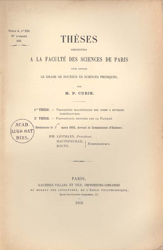 Pierre Curie: Propriétés magnétiques des corps à diverses temperatures (1895). Theses presented to the Faculty of Science in Paris.